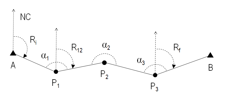 Orientation determination in a traverse